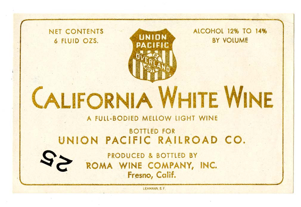 Repository: California Historical Society Collection: California wine label and ephemera collection Date: undated General Note: Bottled for Union Pacific Railroad Co. Call Number: Kemble Spec Col 07 Digital Object ID: Kemble Spec Col 07_024.jpg Preferred Citation: Wine label, Roma Wine Company, Inc., California White Wine, California wine label and ephemera collection, Kemble Spec Col 07, courtesy, California Historical Society, Kemble Spec Col 07_024.jpg.